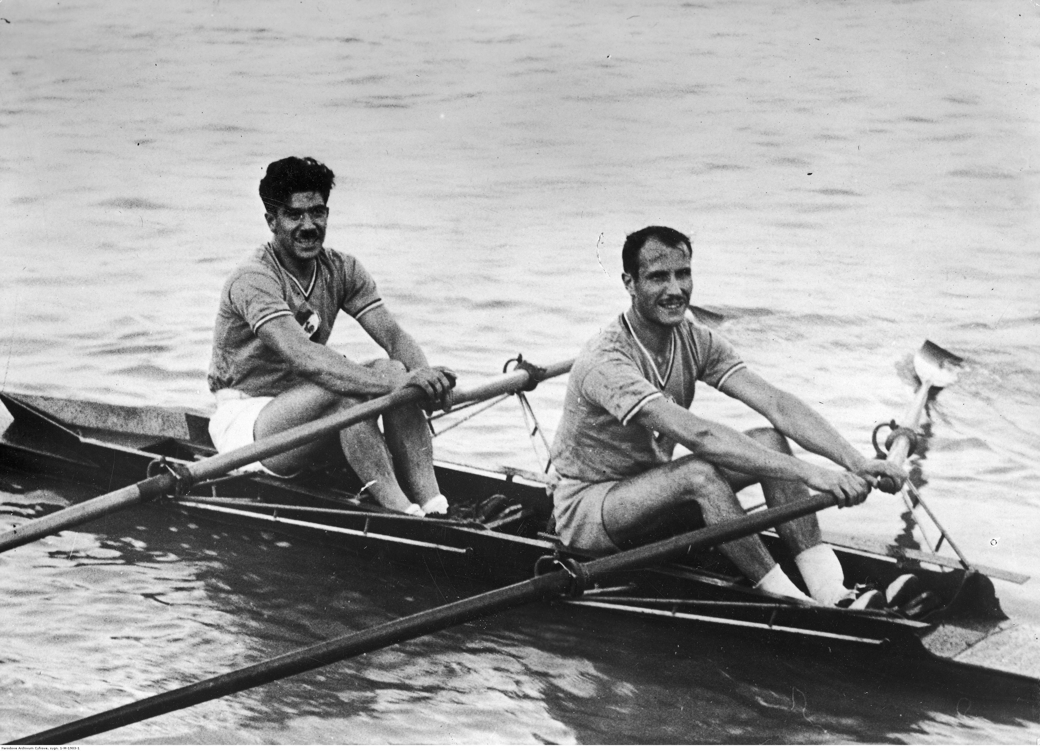 1933 European Rowing Championships: French rowers Georges Frisch and Louis Hansotte during the competition.